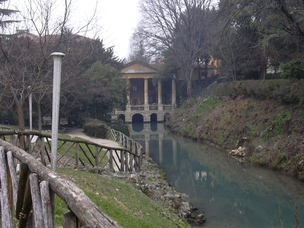 Loggia Valmarana in the Giardini Salvi in Vicenza.